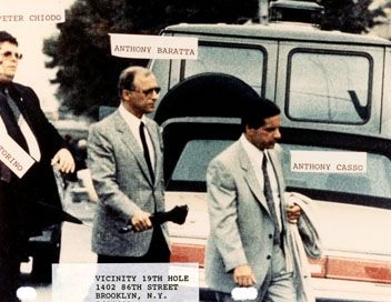 FBI Anthony Casso, Anthony Baratta and Peter Chiodo of Lucchese crime family